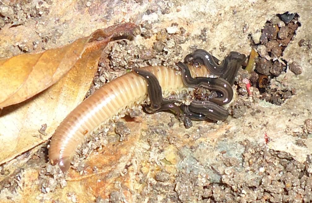 Endeavouria septemlineata specimens feeding on the millipede Rhinocricus sp. in the field.